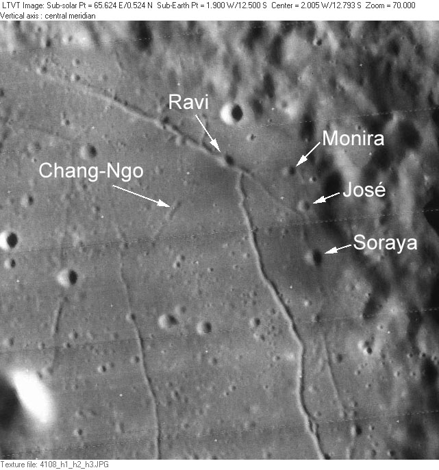 craterlets on the NE floor of Alphonsus. Lunar Orbiter IV-108H. High resolution scan from USGS Lunar Orbiter Digitization Project remapped to north-up aerial view by LTVT.